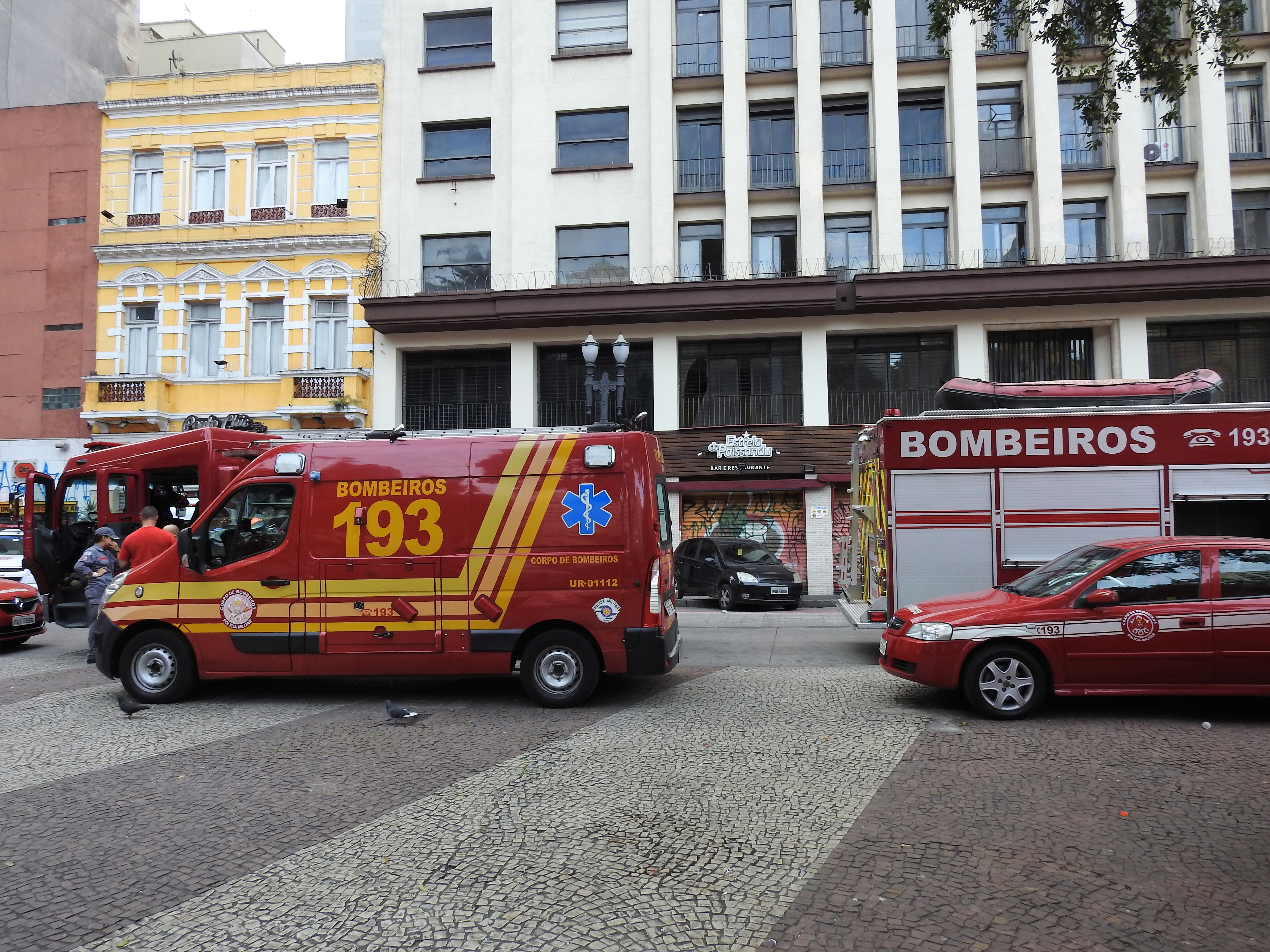 The Wilton Paes de Almeida Building (Portuguese: Edifício Wilton Paes de Almeida) was a high-rise building in Largo do Paiçandu, São Paulo, Brazil, that was built in the 1960s. It caught fire and collapsed on 1 May 2018. The fire started on the fifth floor at 4.20am GMT (1.20am local time) on 1 May 2018, and the building collapsed 90 minutes later. The cause of the fire is thought to be a gas explosion. The fire spread to an adjacent building, which was not in danger of collapsing.